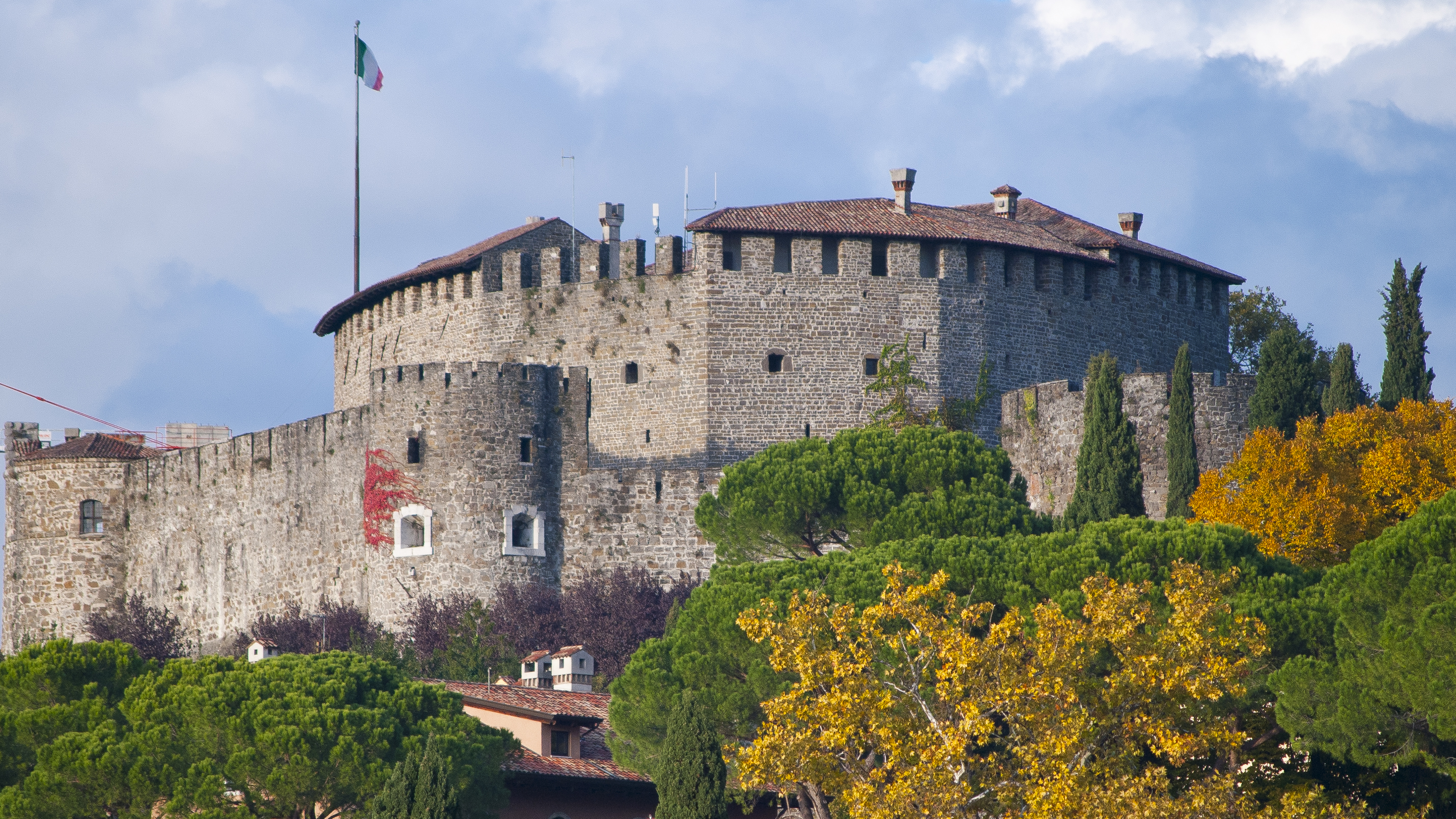 Gorizia Castle in autumn.